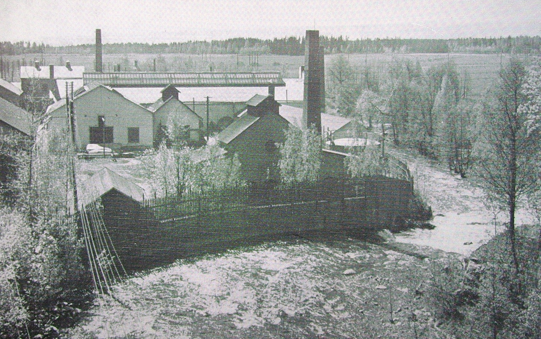 Picture of Skultuna bruk in Sweden